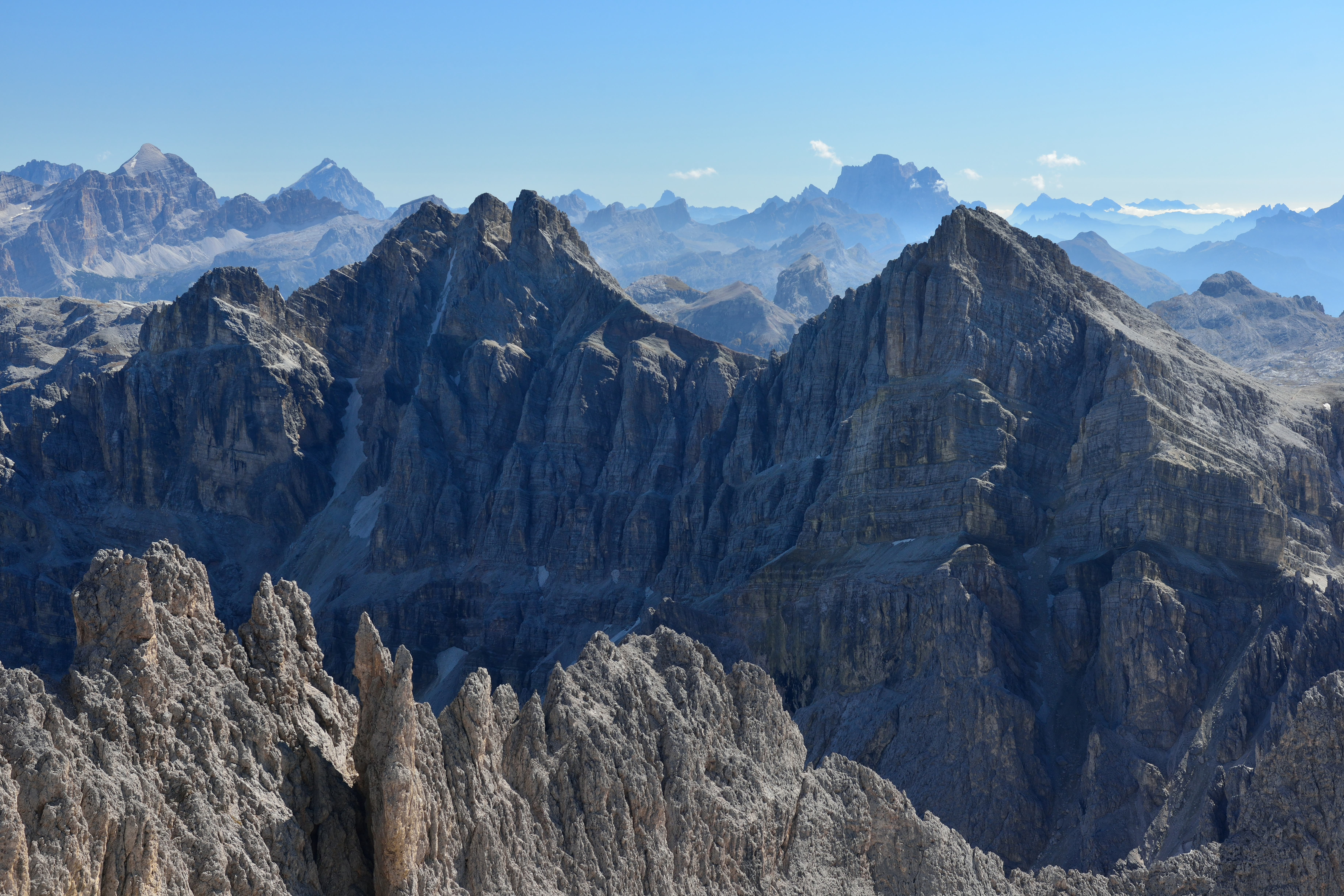 The Puez peaks in the Geisler and Puez group (Dolomites). View from the "Odla de Valdusa" peak (2936 m)"